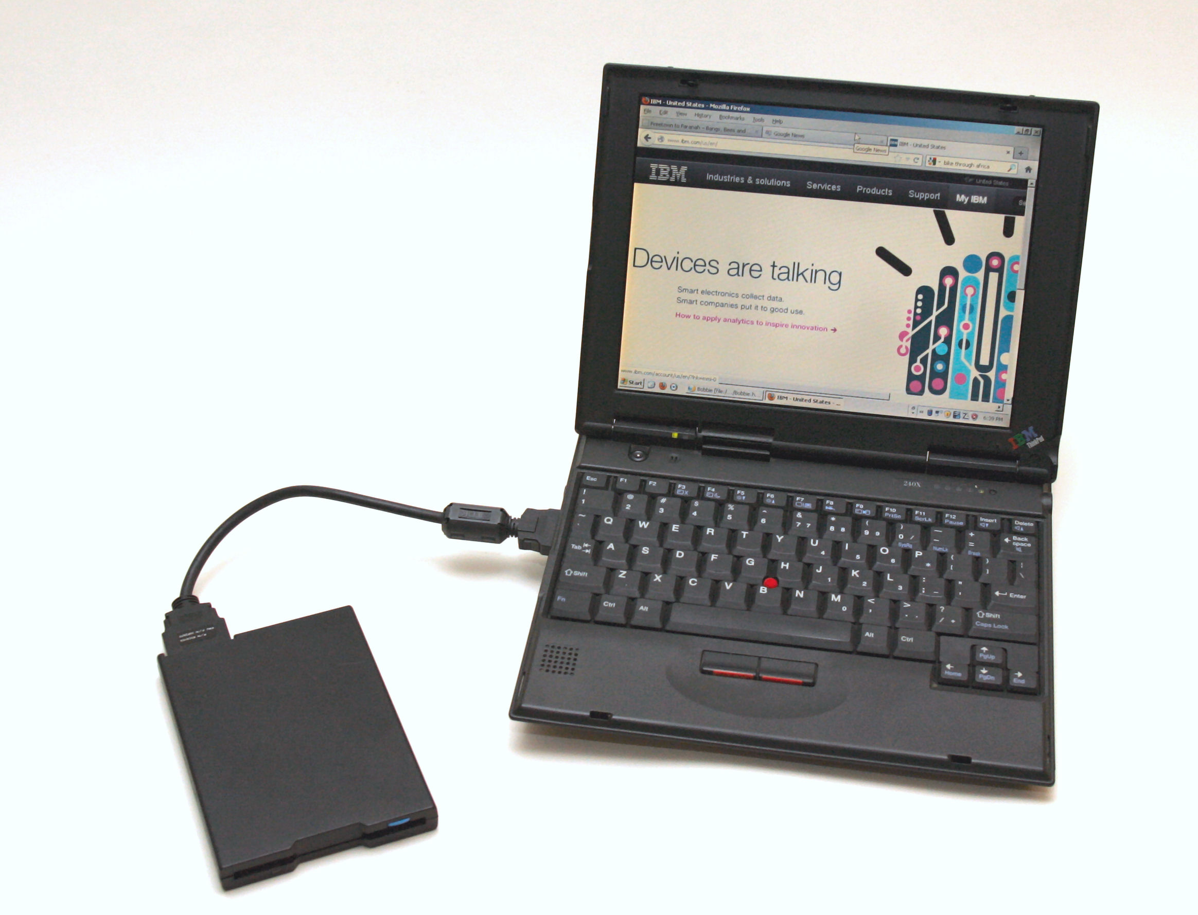 IBM Thinkpad Model 240X with accessory floppy drive